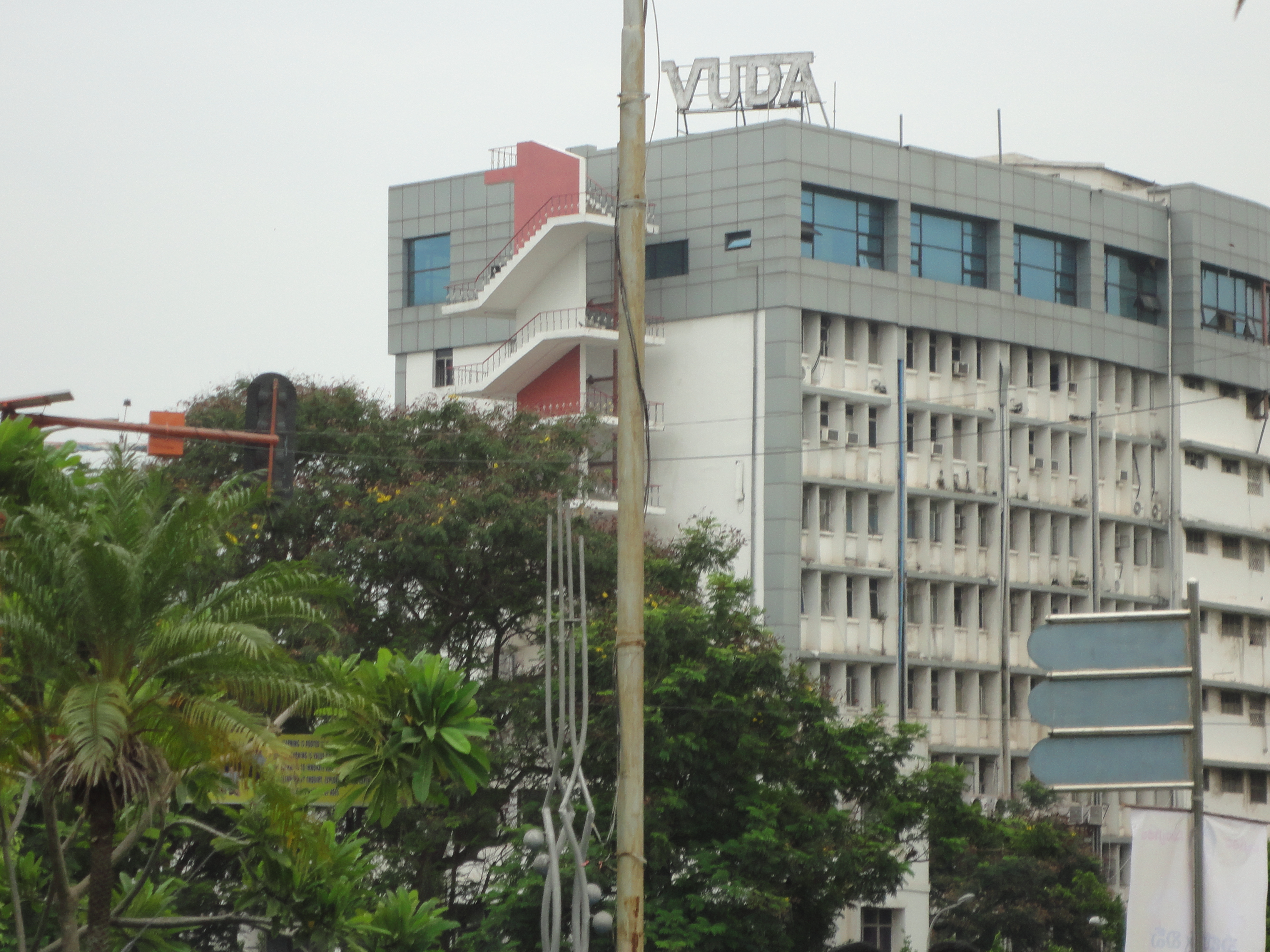 Visakhapatnam Urban Development Authority office